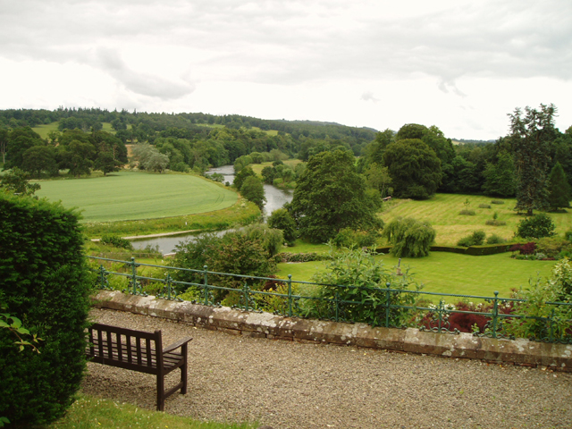 River Teviot from Monteviot House Garden. This historic house is situated overlooking the River Teviot and has extensive Grounds including formal garden, a Japanese Water Garden and a beautiful Arboretum. The gardens are occasionally open to the public although the house which is the ancestral home of the Marquess of Lothian is private.